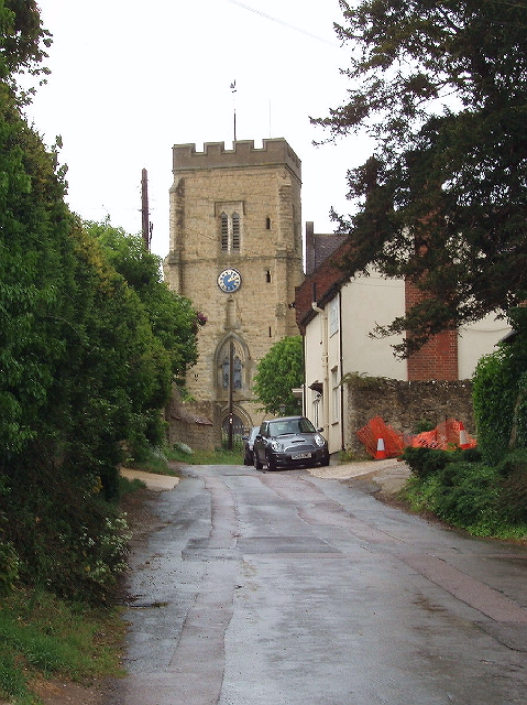 Whitchurch, Buckinghamshire: view along Church Lane from the High Street to the tower of St John the Evangelist's parish church